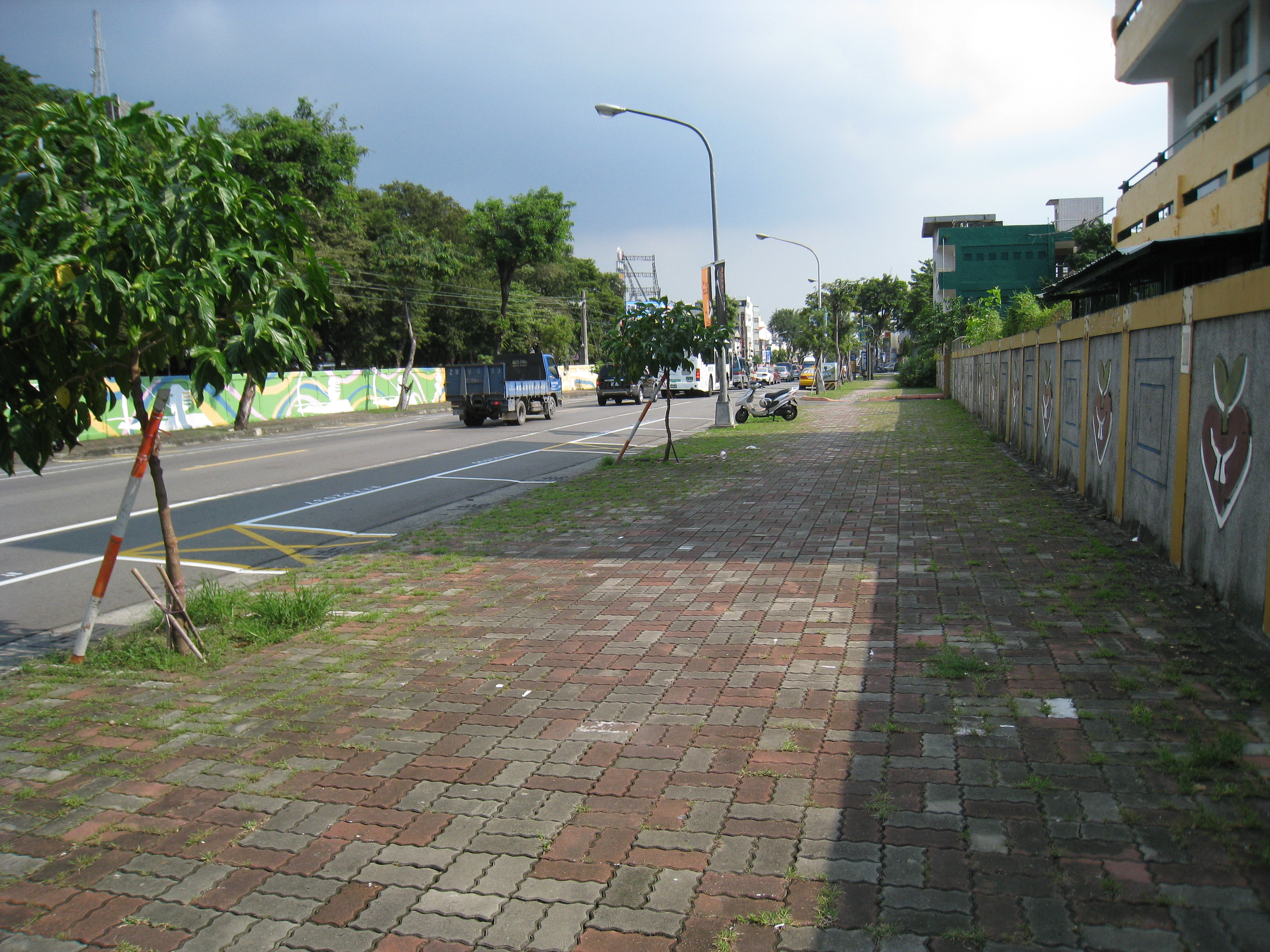 Kaisyuan 2nd Road, Kaohsiung中文（台灣）: 高雄市凱旋二路。